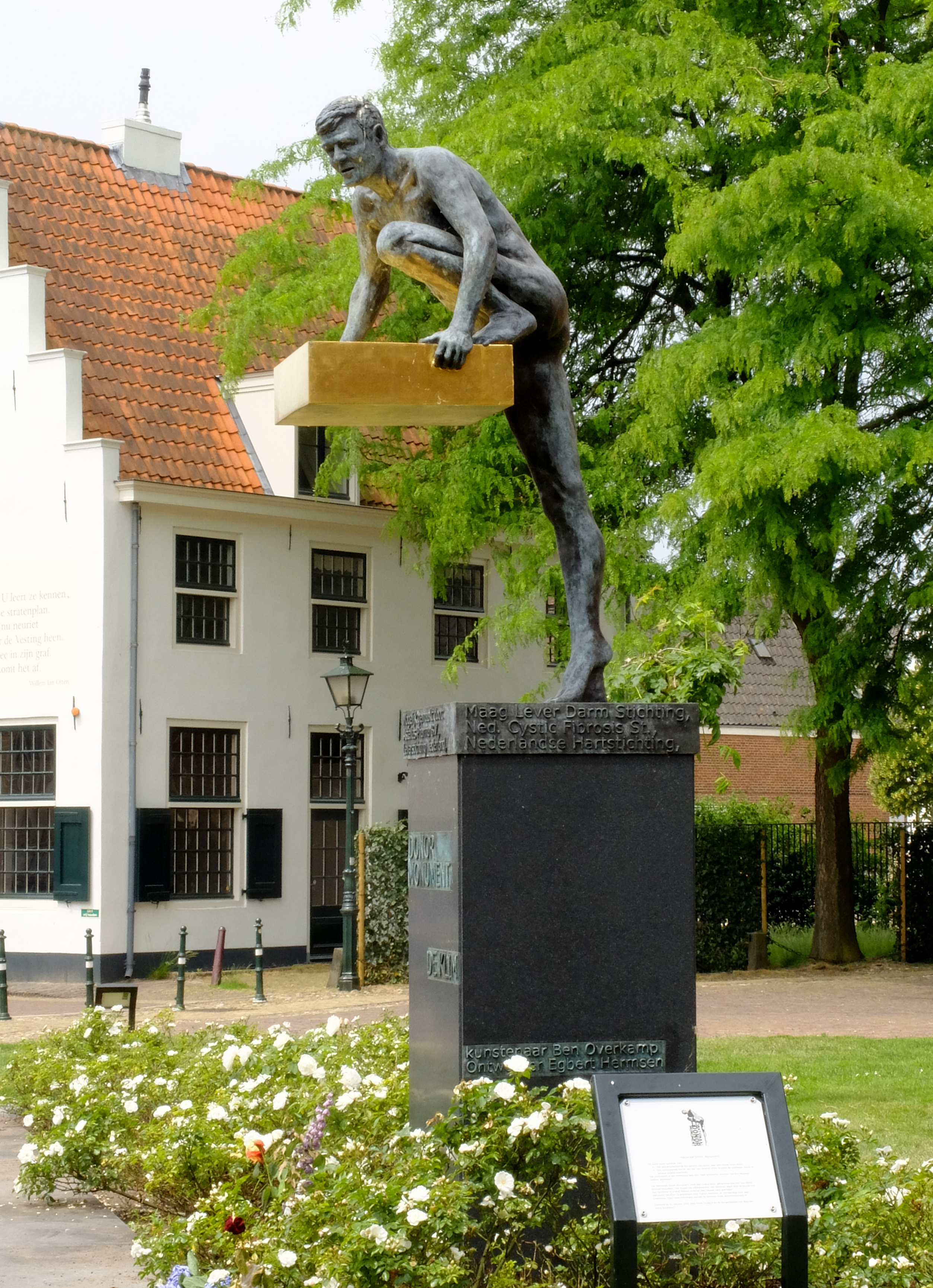 "National Donor Monument" in Naarden.